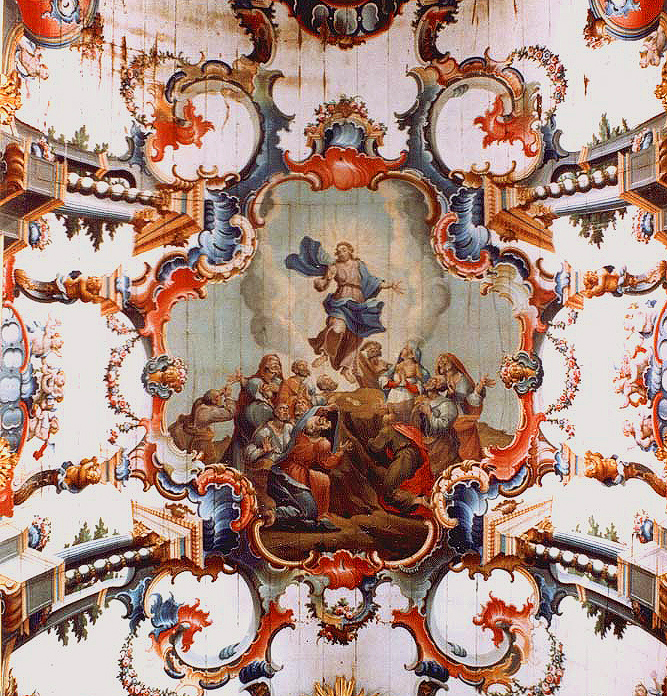 Ceiling of Saint Barbara chapel.